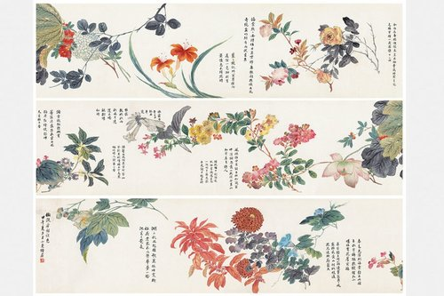 Lu Xiaoman was a beloved cultural figure in 20th century Chinese history. She was given the name of Mei but later changed her name to Xiaoman Xiaoman she died in 1965. guess at 1945 for paintings